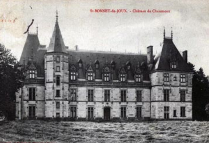 Postcard photo of the northwest facade of the Château de Chaumont-la-Guiche in Saint-Bonnet-de-Joux, France